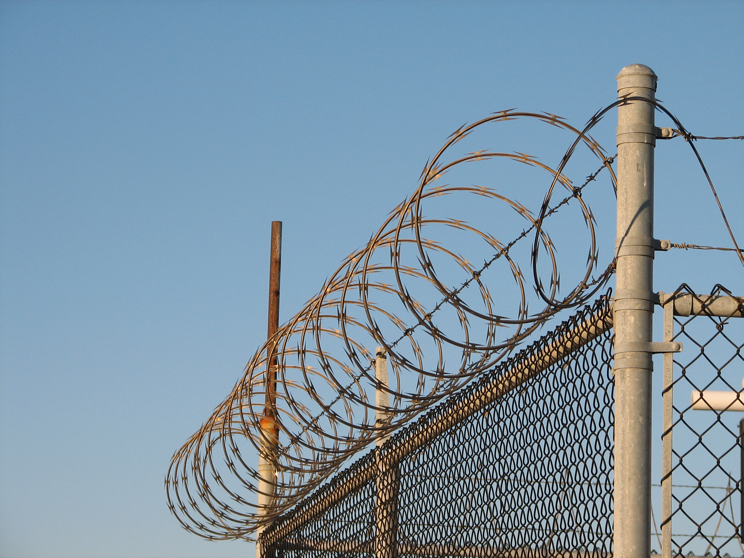 Concertina wire on the FAA airplane station in Foster City, CaliforniaConcertina wire on the FAA airplane station